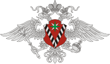 Russian Federation. Emblem of the Federal Immigration Service (ФМС).